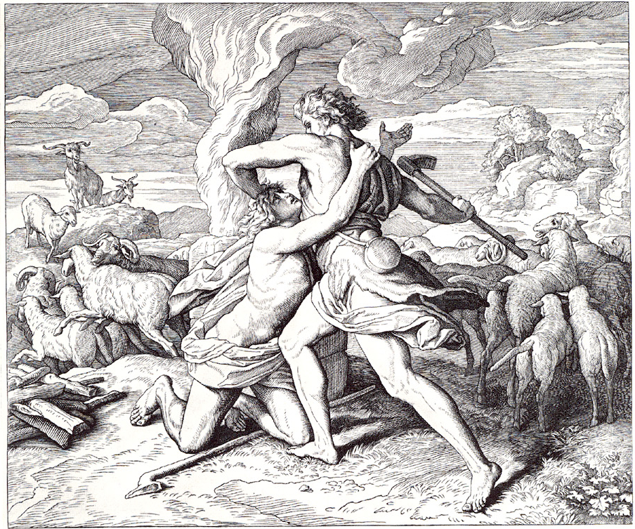 Woodcut for "Die Bibel in Bildern", 1860.